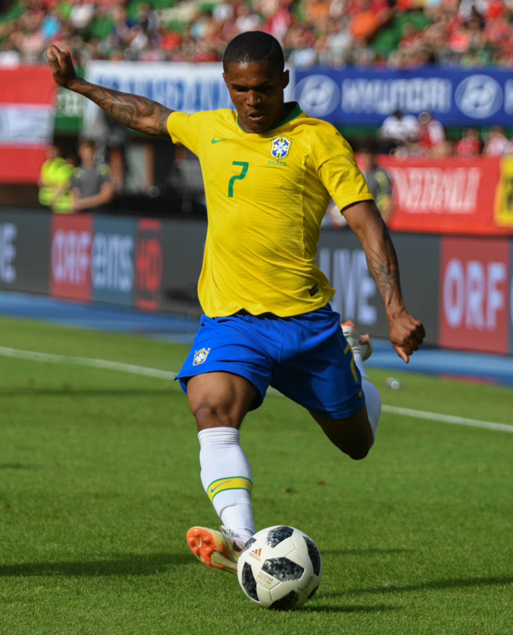 FIFA Friendly Match Austria vs. Brazil 2018/06/10 in Vienna/Ernst-Happel-Stadium. Picture shows Douglas Costa (BRA).